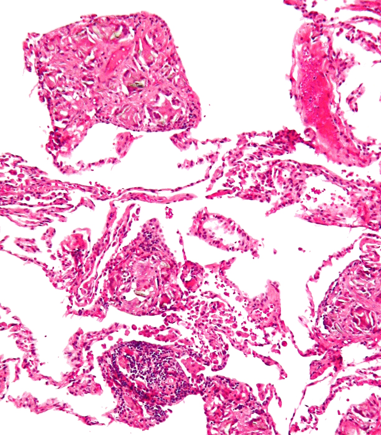 Low magnification micrograph of granulomatous inflammation of the lung secondary to a foreign body reaction in the context of intravenous drug use (IVDU), also known as drug abuser lung and pulmonary talcosis, if the foreign material is demonstrated to talc. H&E stain. Pulmonary talcosis is a common finding in chronic IVDUs, as talc is often used to dilute herion and thereby increase its weight and street value. See also Image:Pulmonary talcosis low mag.jpg